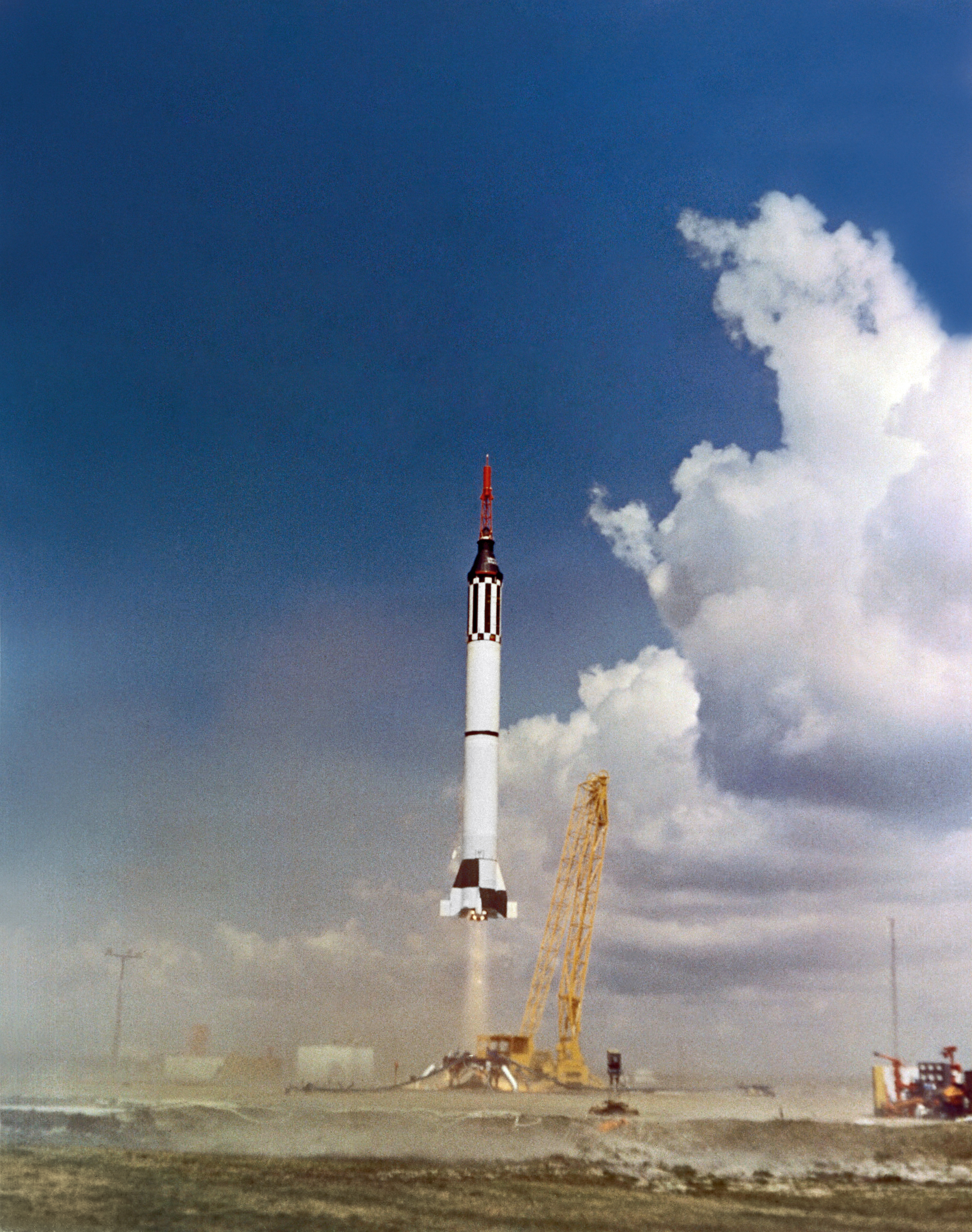 Launching of flight Mercury-Redstone 3 (MR-3), the first U.S. manned space flight, from Cape Canaveral on May 5, 1961, on a sub-orbital mission. (The NASA archive misidentifies this photo as the Mercury-Redstone 2 launch, but the presence of the "cherry picker", used as an emergency exit for the astronaut before liftoff, indicates a human pilot.)